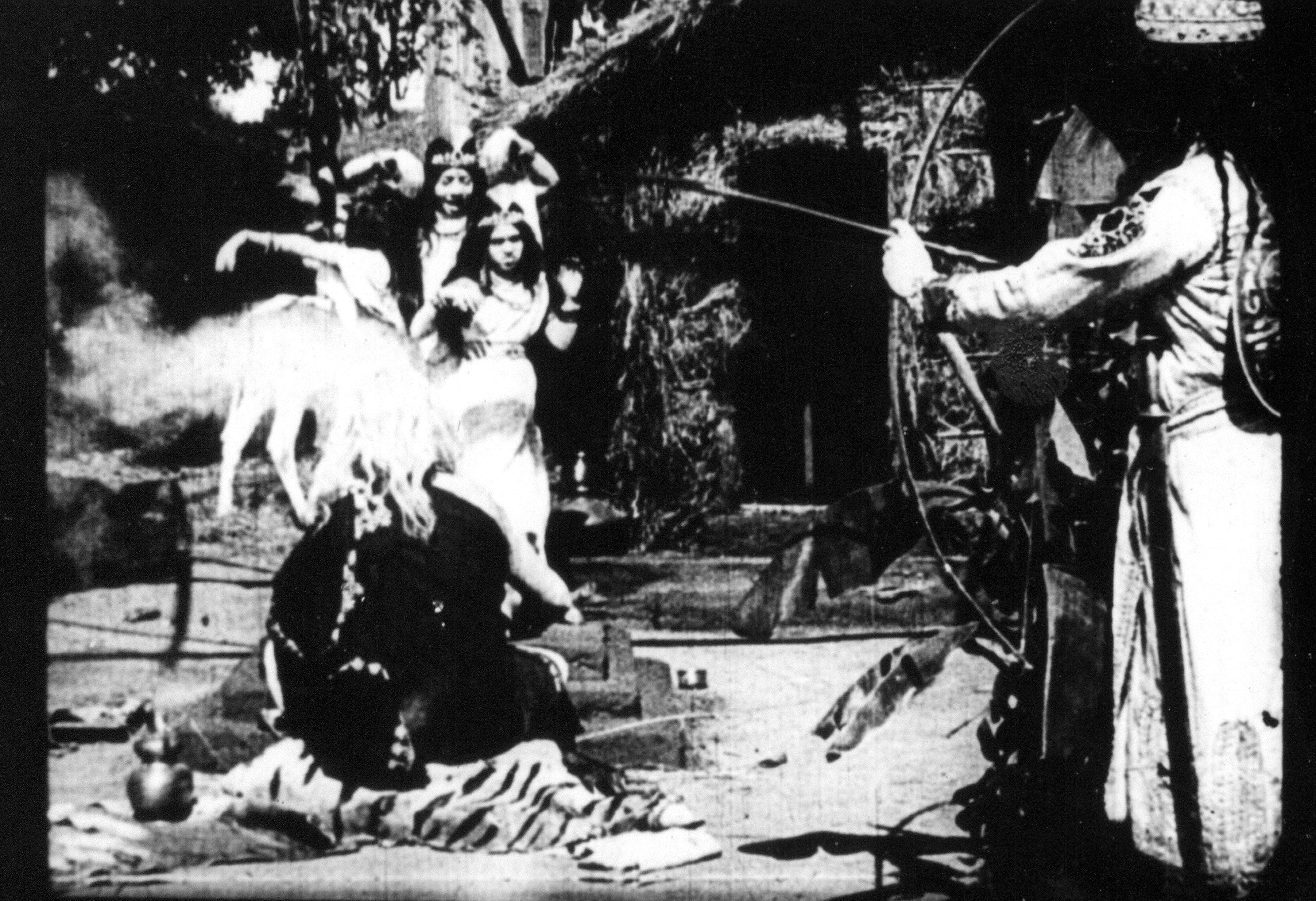 A scene from film, Raja Harishchandra (1913).